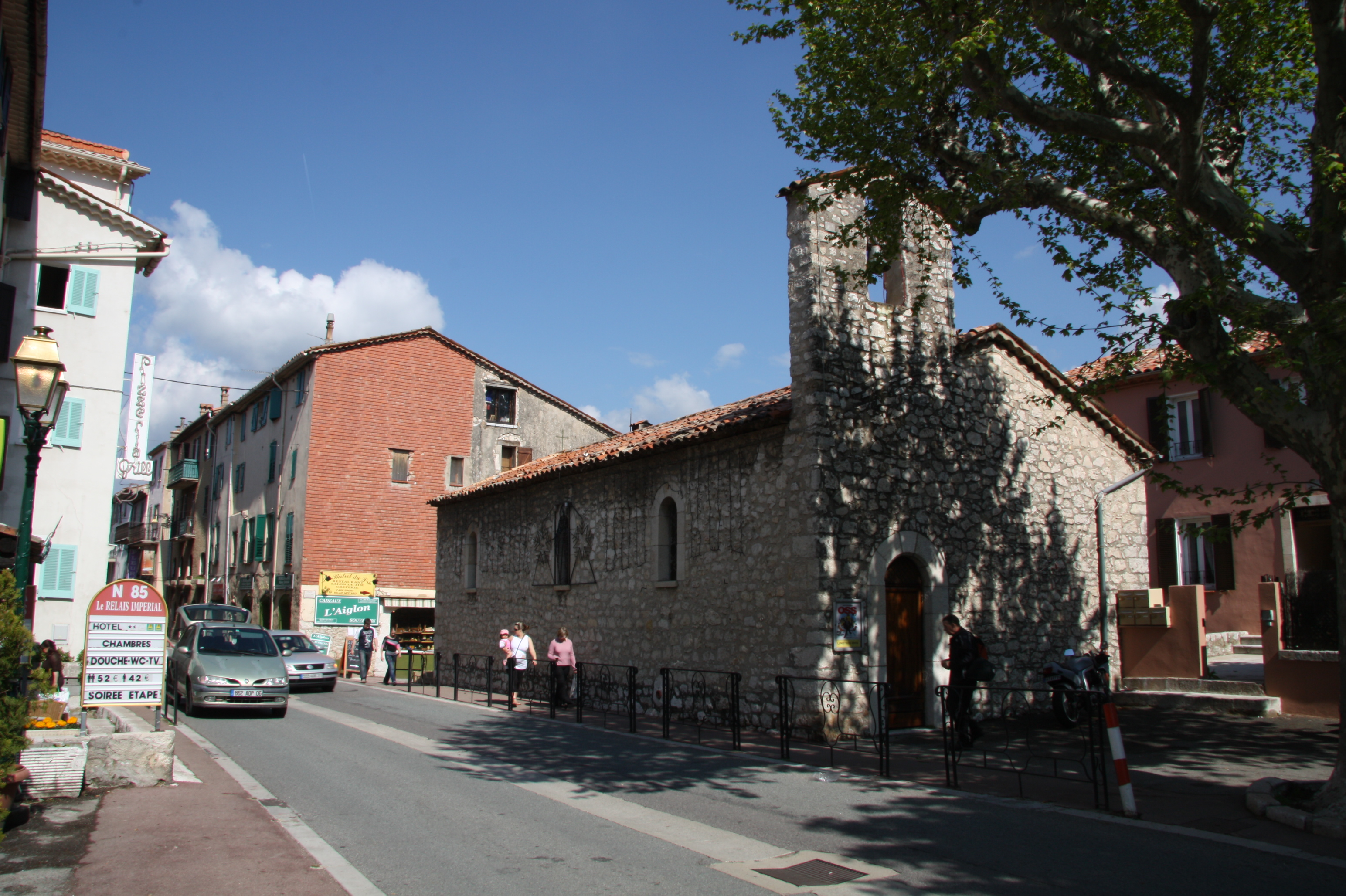 Saint-Vallier-de-Thiey, Rue Adrien Guebhard Chapelle Sainte-Luce